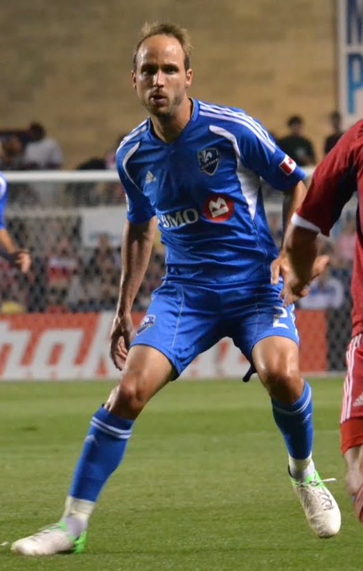 Justin Mapp of Montreal Impact